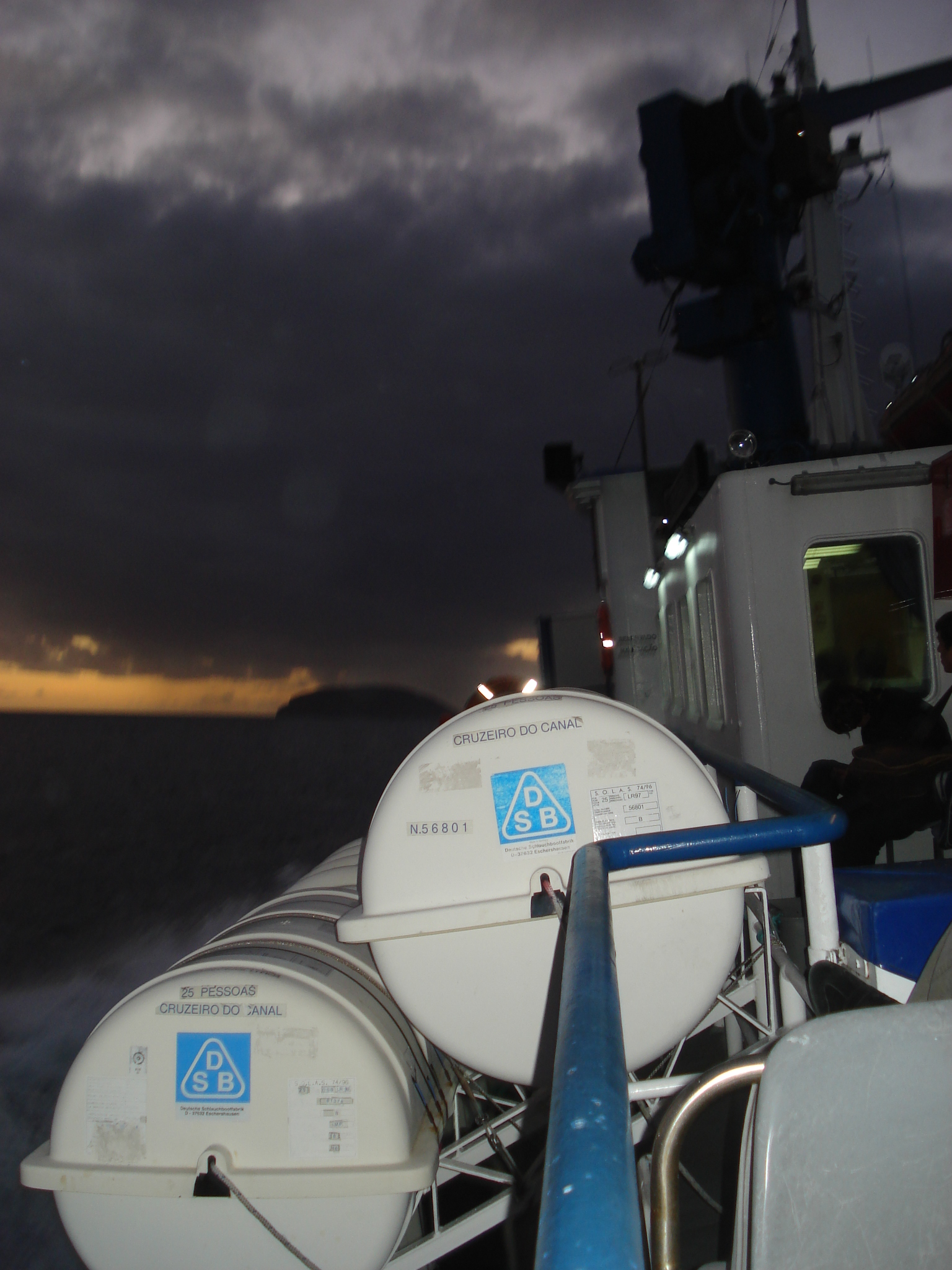 A view towards Monte da Guia on the Cruzeiro do Canal, Faial-Pico Channel, Azores, Portugal